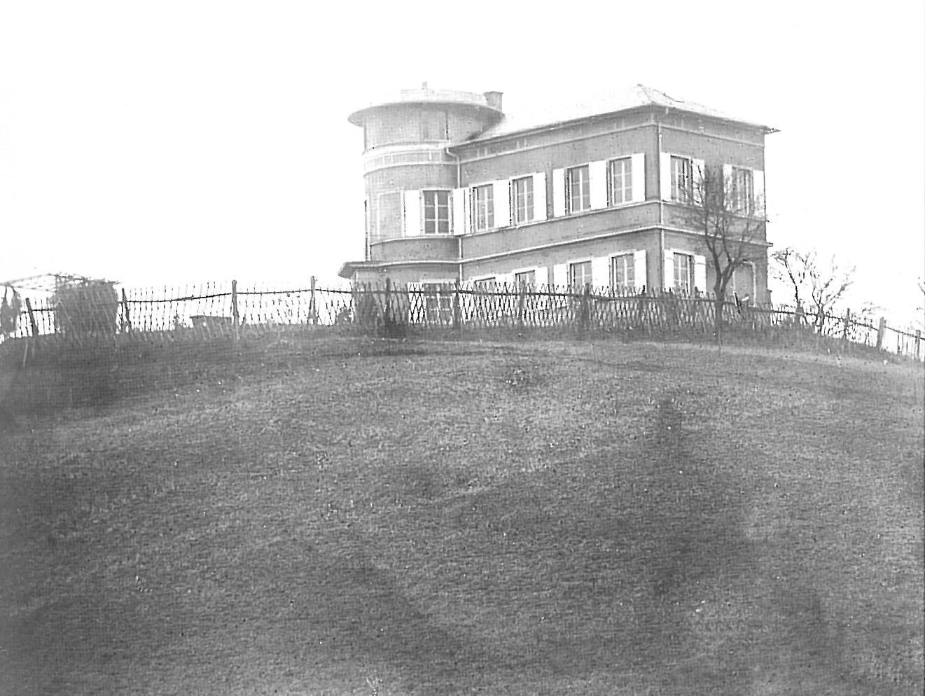 historic photography of Bamberg, Germany